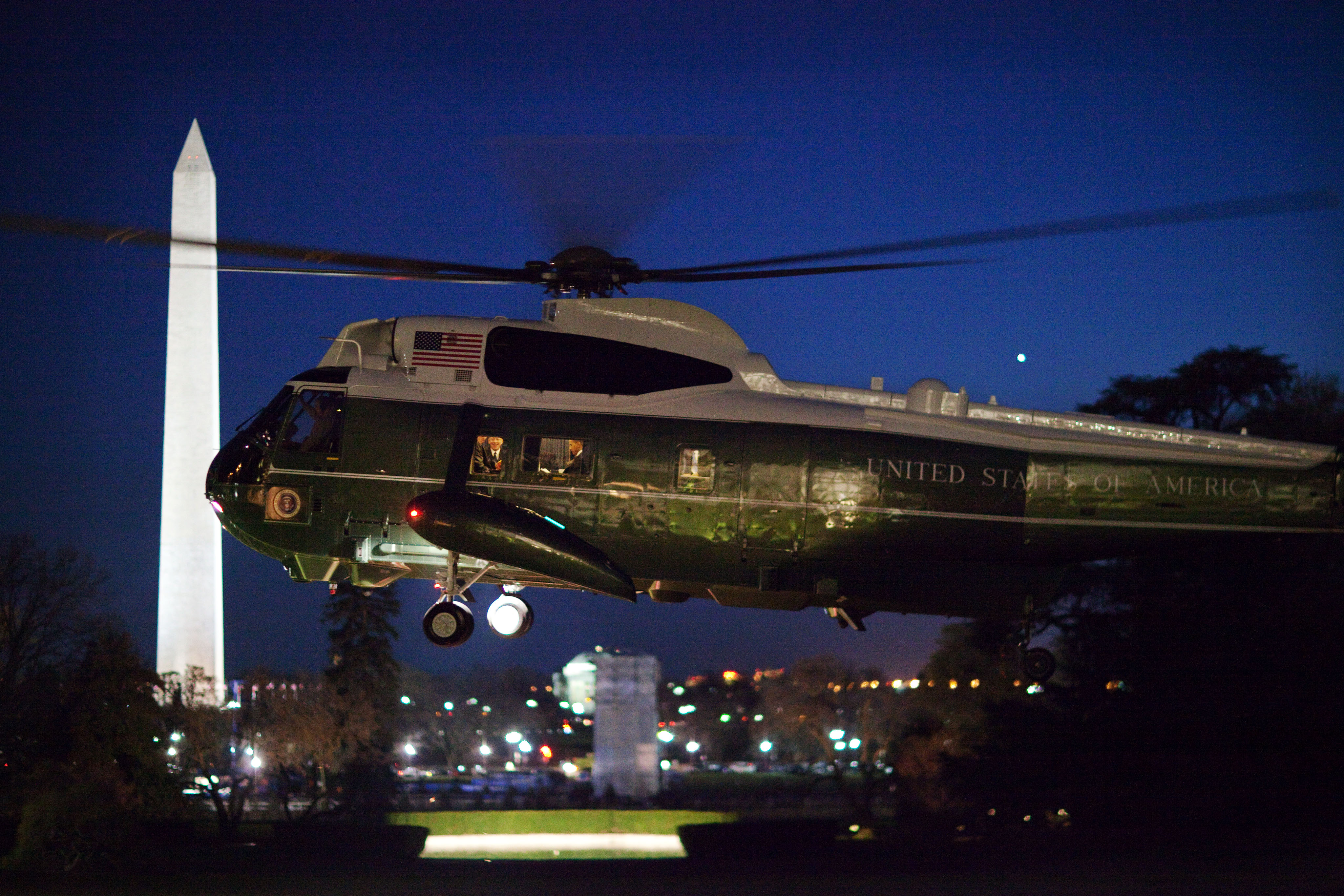 President Barack Obama can be seen reading through the window (and also Michael Mullen by this other window) as Marine One lifts off from the South Lawn of the White House en route to Andrews Air Force Base, before heading to West Point, Dec. 1, 2009.